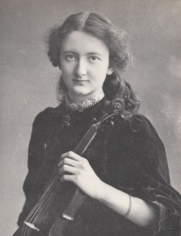 Kathleen Parlow, Portrait